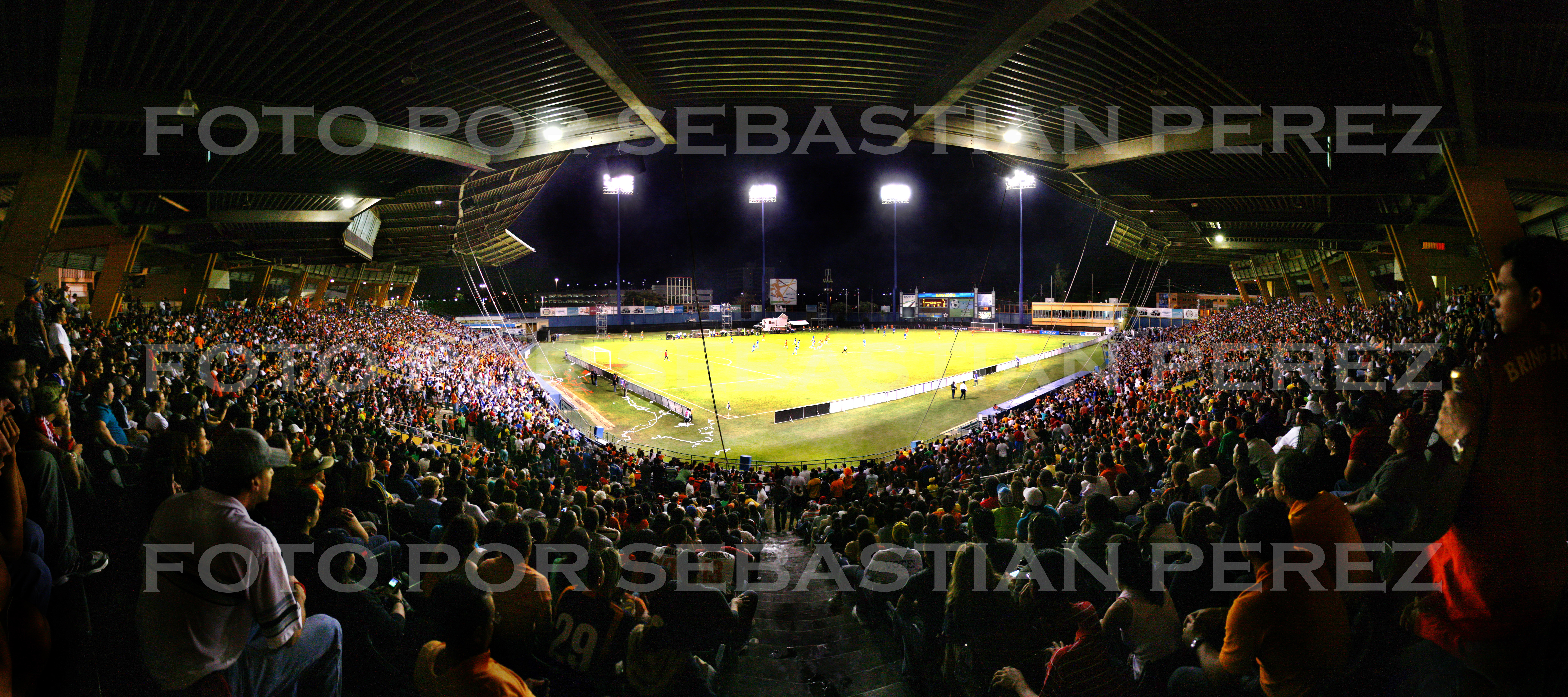 Wide Picture of the Juan Ramon Loubriel Stadium (Home of the Puerto Rico Islanders) at the semi-finals vs Cruz Azul on the CONCACAF League Asistance Reccord: 13,000 Fans - 2,000 out of stadium.